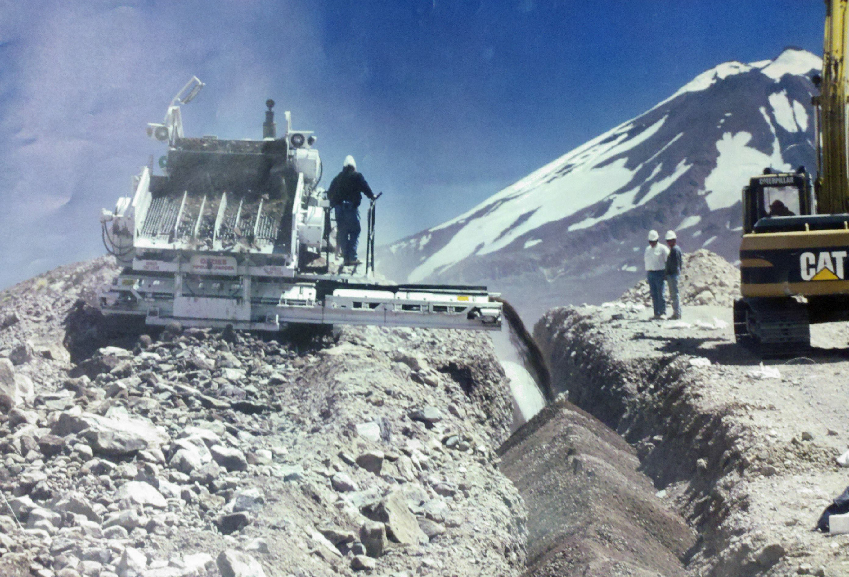 An Ozzie's Pipeline Padder, backfill-separation machine, model OPP-300, working on the GasAndes Pipeline, in the Argentine Andes.